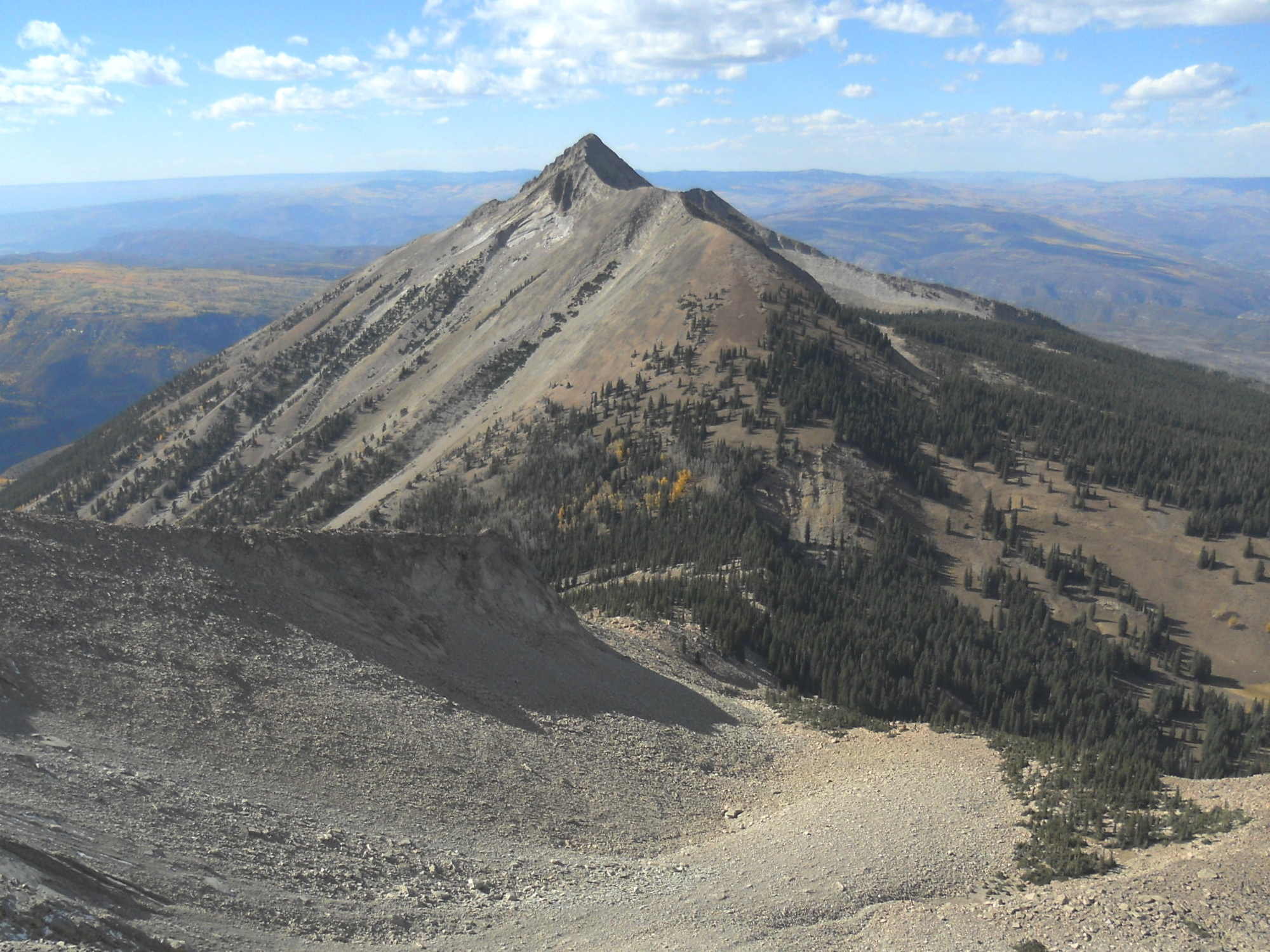 West Beckwith Mountain, elevation 12,185 ft (3,714 m), viewed from a ridge on East Beckwith Mountain. West Beckwith Mountain is located in the West Elk Mountains and its crest forms the boundary of the West Elk Wilderness, which lies to the north (left in the photo).